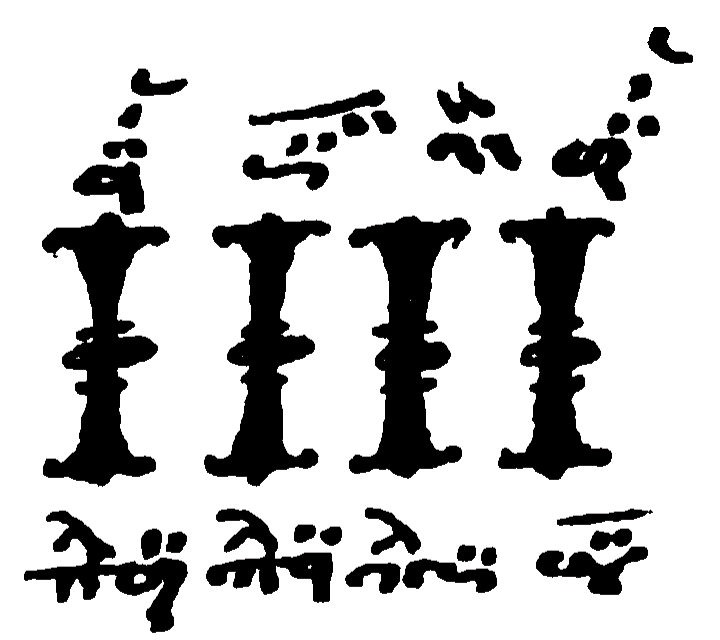 Four columns which are used in a Renaissance treatise for Byzantine chant to illustrate the contemporary "method of solfeggio" (μέθοδος τῆς παραλλαγῆς)